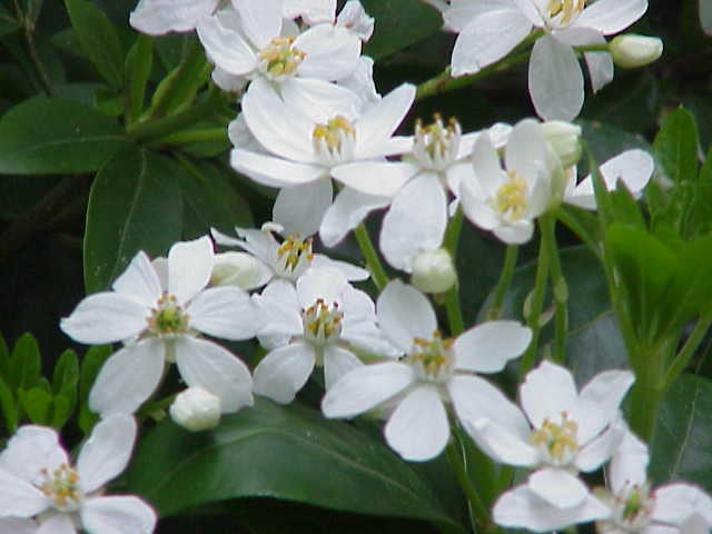 Species: Clethra fargesii Choisya ternata Family: Rutaceae Image No. 1